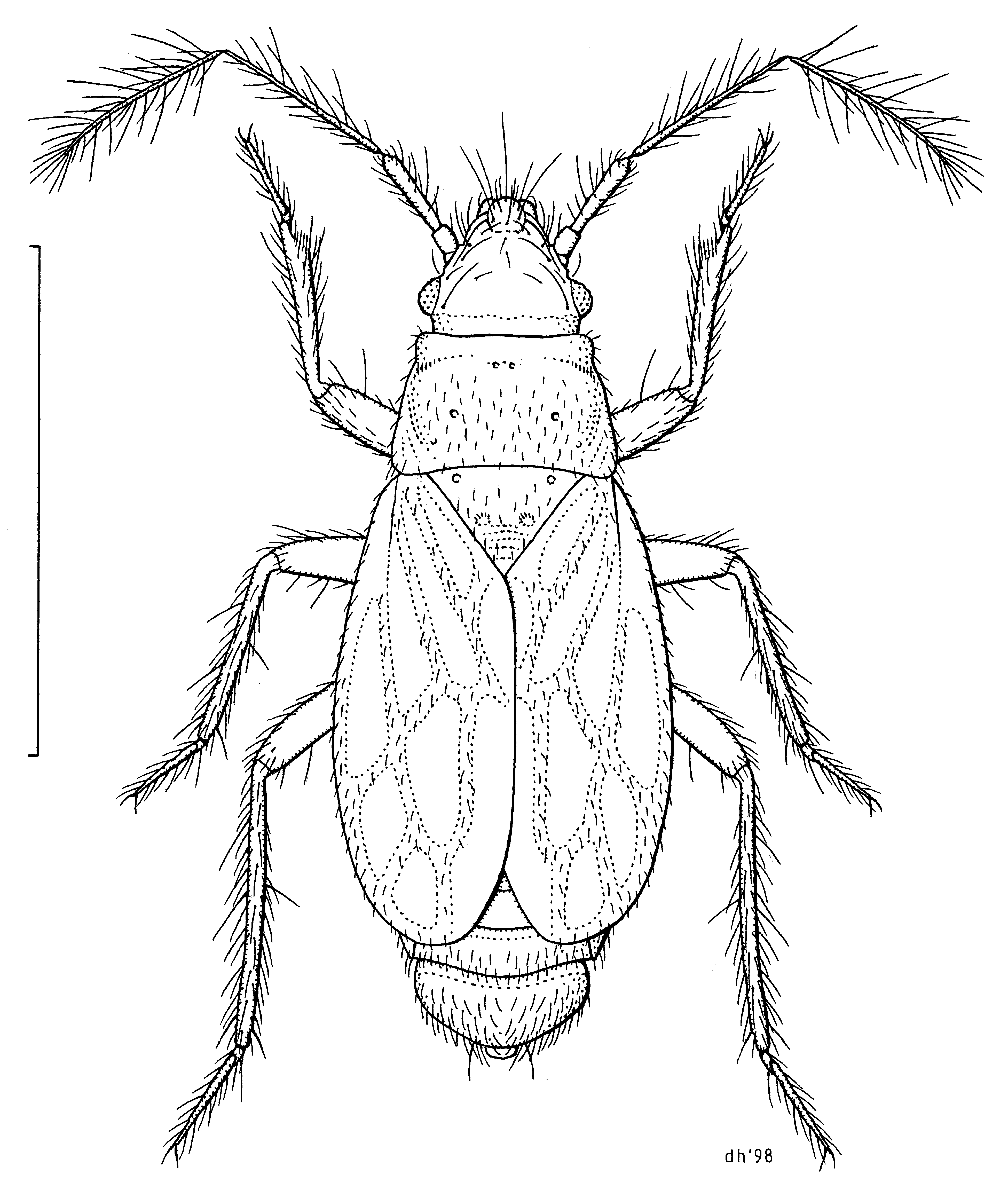 (Hemiptera: Ceratocombidae) Ceratocombus sp illustrated by Des Helmore.